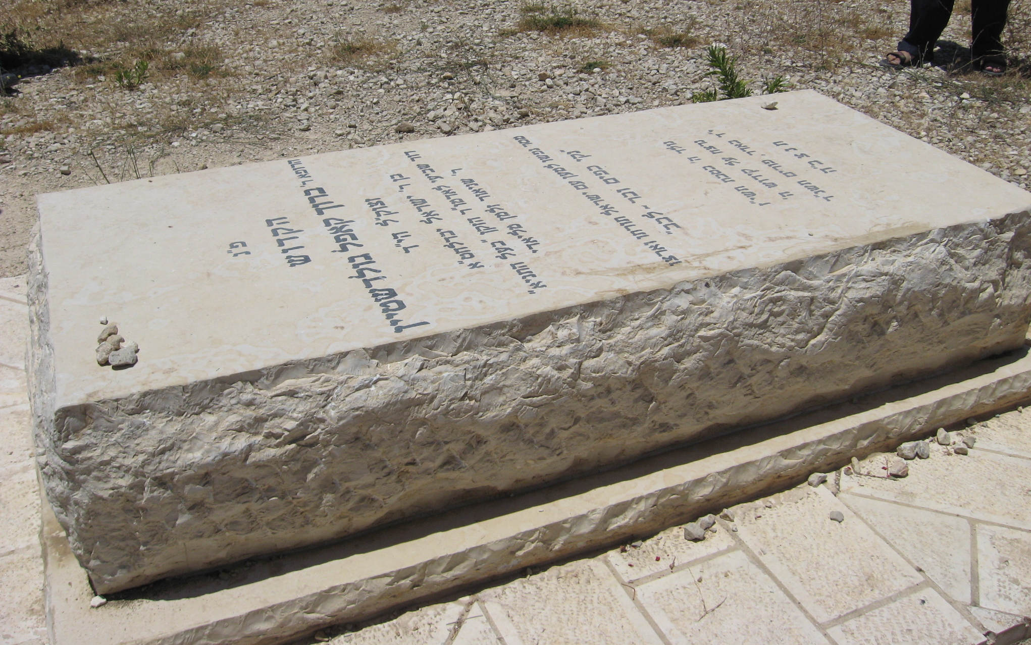 Tombstone of Baruch Goldstein, Meir Kahane Tourist Park, Kiryat Arba, Palestinian Occupied Territories. Gravestone text (Hebrew Jewish acronyms are translated with dashes separating the words): Here-is-buried The Holy The physician Mr. Barukh Kappel Goldstein Blessed-be-his-holy-and-righteous-memory, May-the-L-rd-avenge-his-blood Son of Mr. Israel, who-in-contrast-is-still-alive-and should-continue-to-a-long-and-good-life-Amen Seventh generation of the Old Rebbe "Master of the Tanya" Rabbi Shneur Zalman of Liadi Gave his life for the nation of Israel, its Torah and its land "Clean of hands and pure of heart" Born 5th of Tevet, 5717 Martyred sanctifying the Lord 14th of Adar, Purim 5754 May-his-soul-be-bound-in-the-bond-of-life